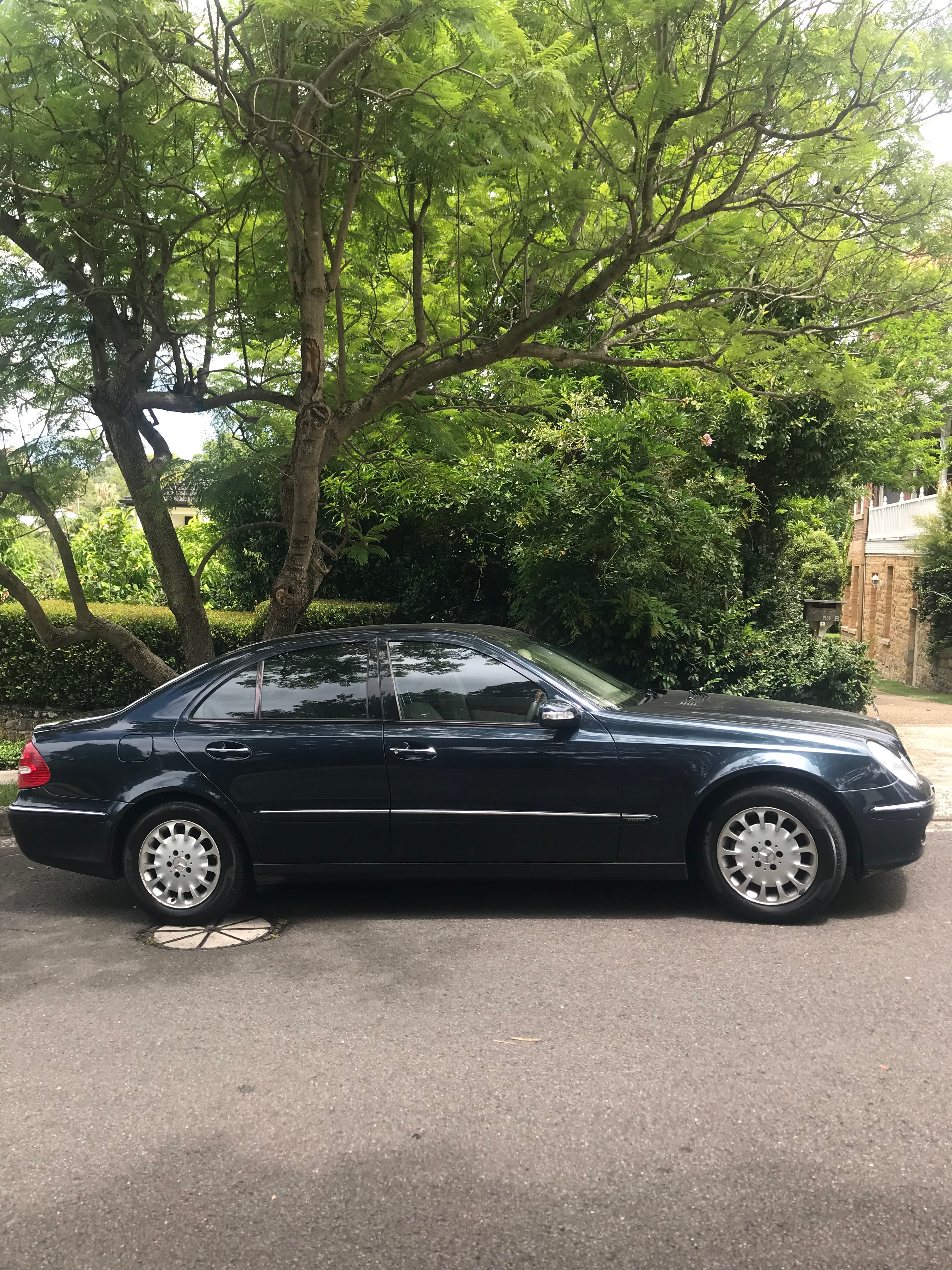 This is a photograph of a Mercedes Benz E320.